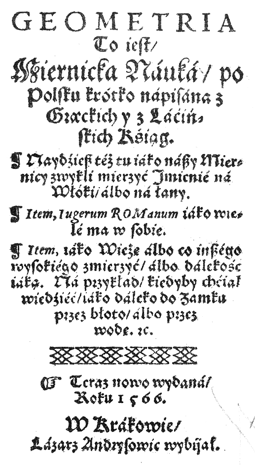 Stanisław Grzepski , "Geometria To iest Miernicka Náuká : po polsku krótko nápisána z Greckich y z Łáćińskich Kśiąg. Teraz nowo wydaná", Kraków : Łázarz Andrysowic wybijał, 1566.